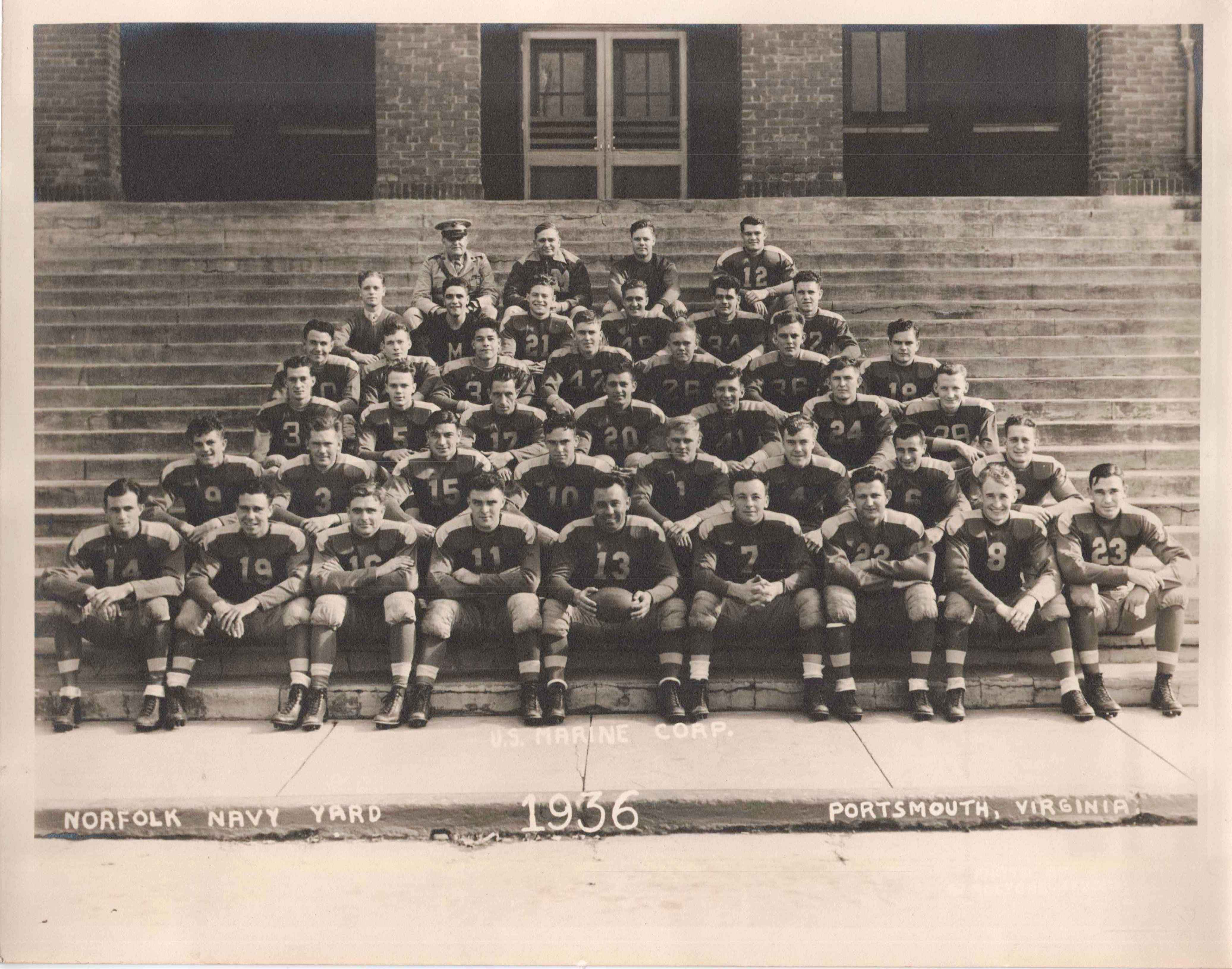 United States Marines pose for a team photograph at the Norfolk Naval Yard, Portsmouth, Virginia in 1936. Brigadier General Thomas F. Riley, wearing #12 jersey, is seated in the last row, far right. From the Thomas F. Riley (COLL/3876) at the Marine Corps Archives and Special Collections OFFICIAL USMC PHOTOGRAPH